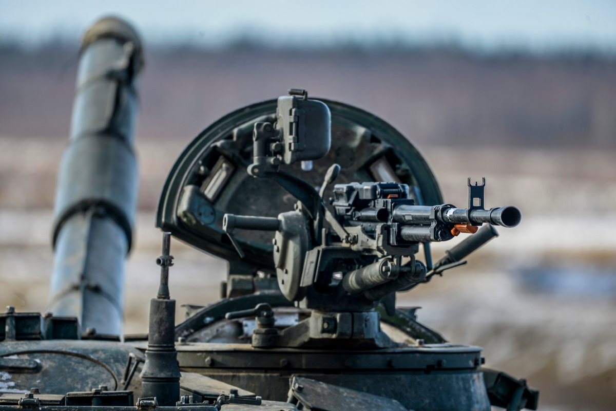 T-72B3 of the 2nd Guards Motorized Rifle Division.